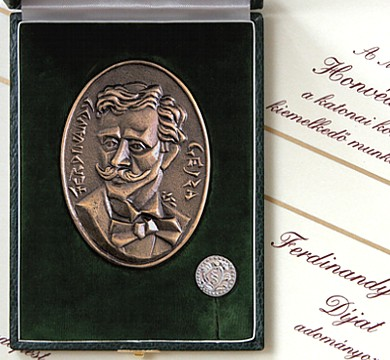 Gejza Ferdinandy prize